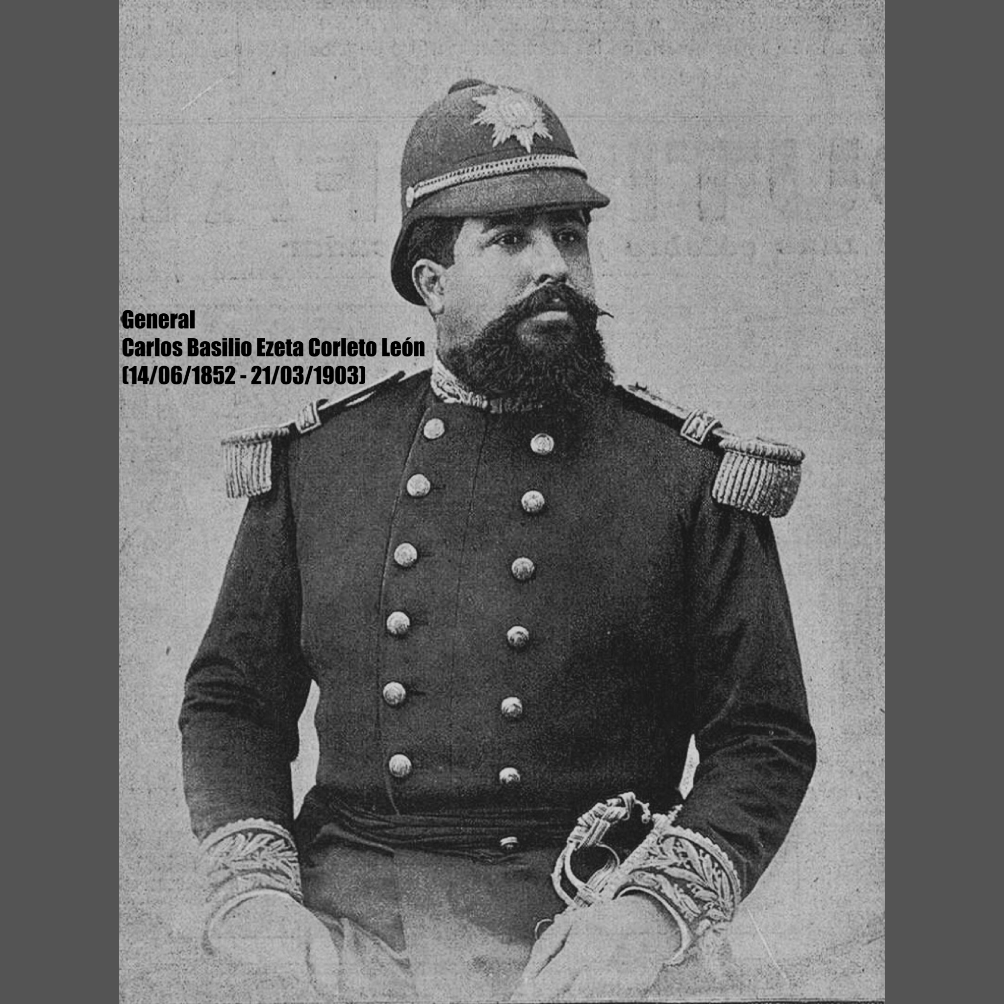 Présidente de la República de El Salvador